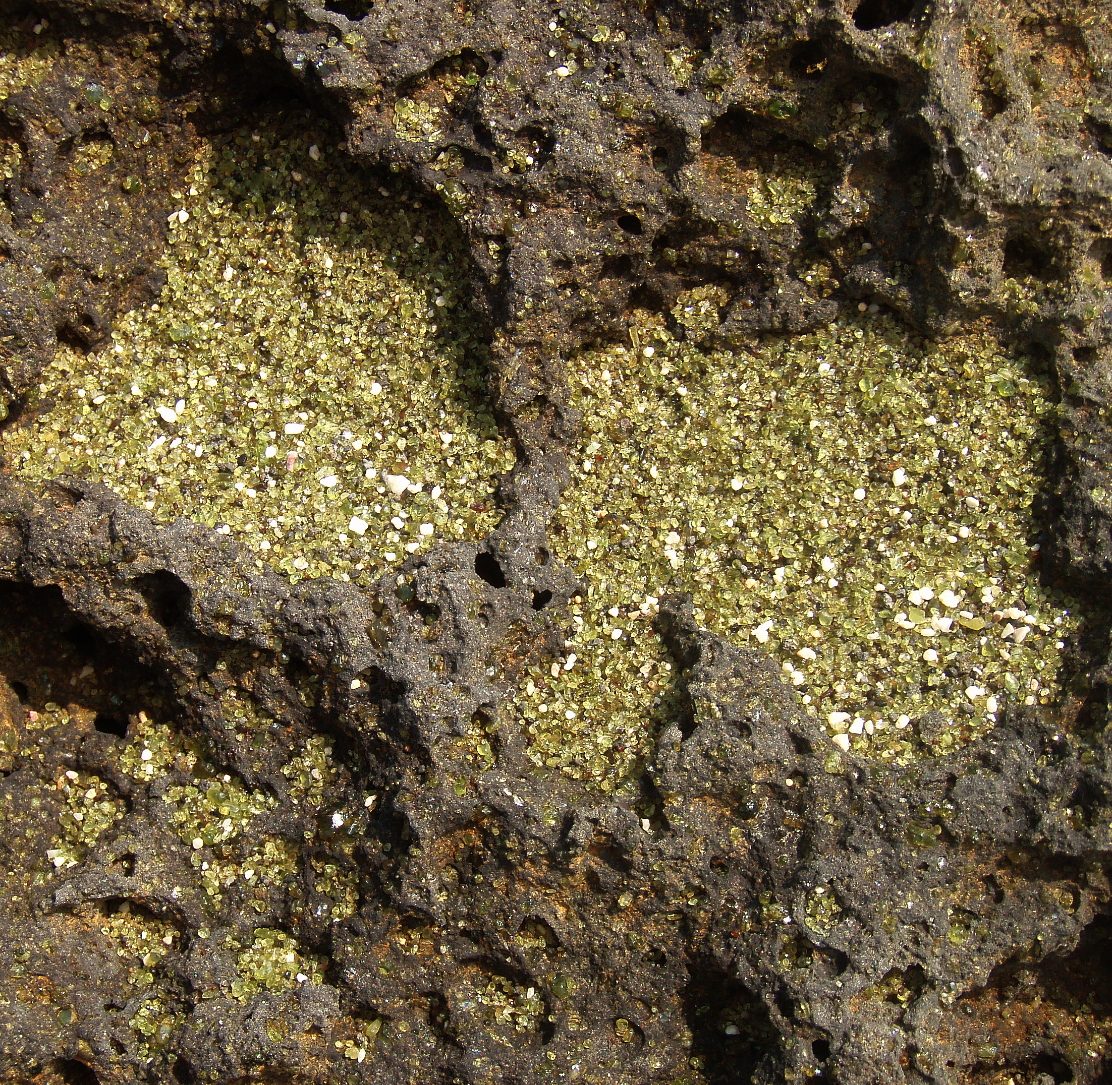 Close up of Green Sand. When looking on the image in a full resolution please notice that while some olivine Crystals are became green sand others are still inside a lava rock. The image was taken at Big Island of Hawaii